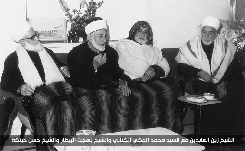 Zine El Abidine Ben Hasine Ettunsi with Muhamed Elmakki Alkatani and Sheikh Bahjat Albaytari and Sheikh Hasan Habanka